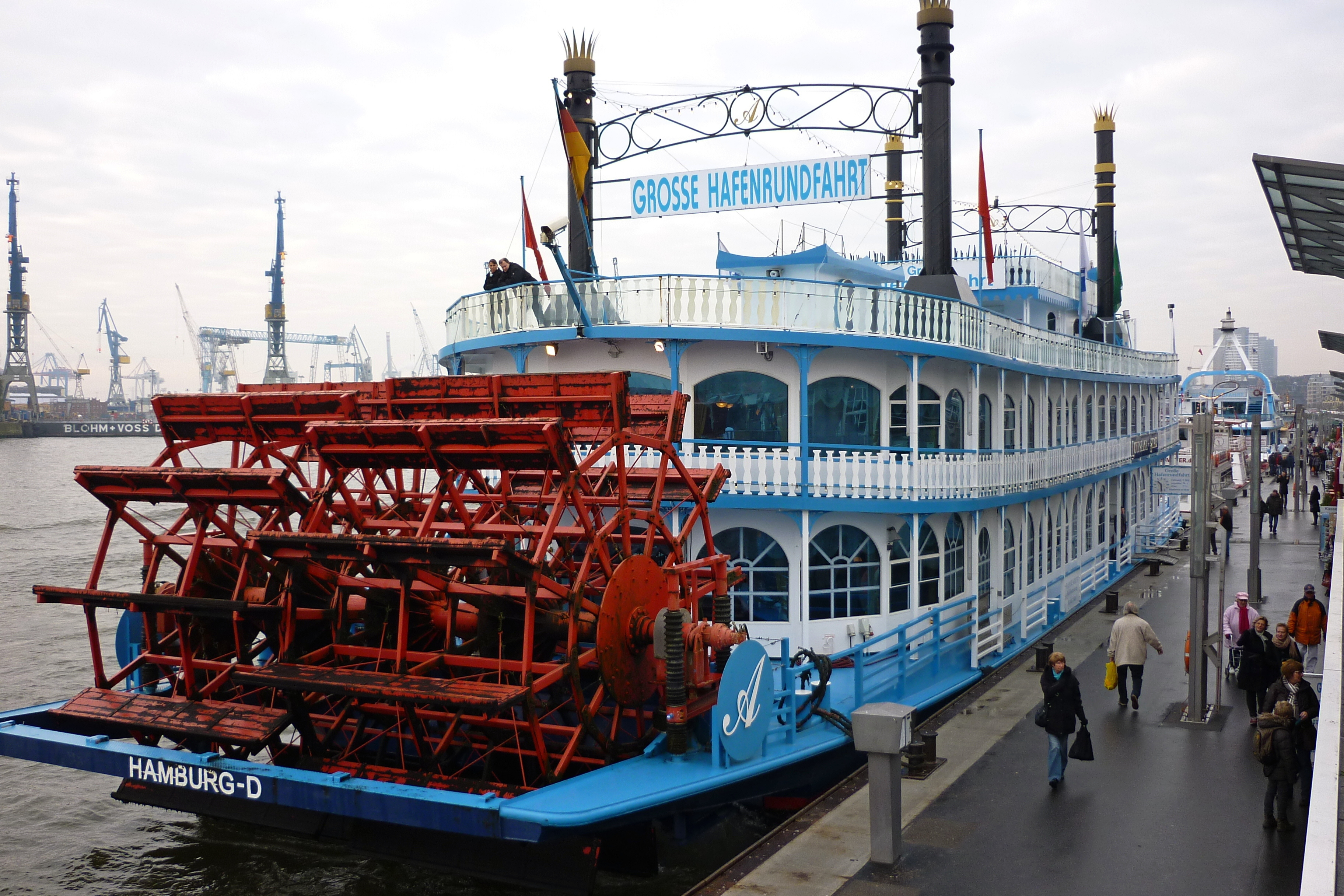 Hamburg: Motor ship "Louisiana Star", designed to resemble a paddle steamer, at St. Pauli Landungsbrücken.